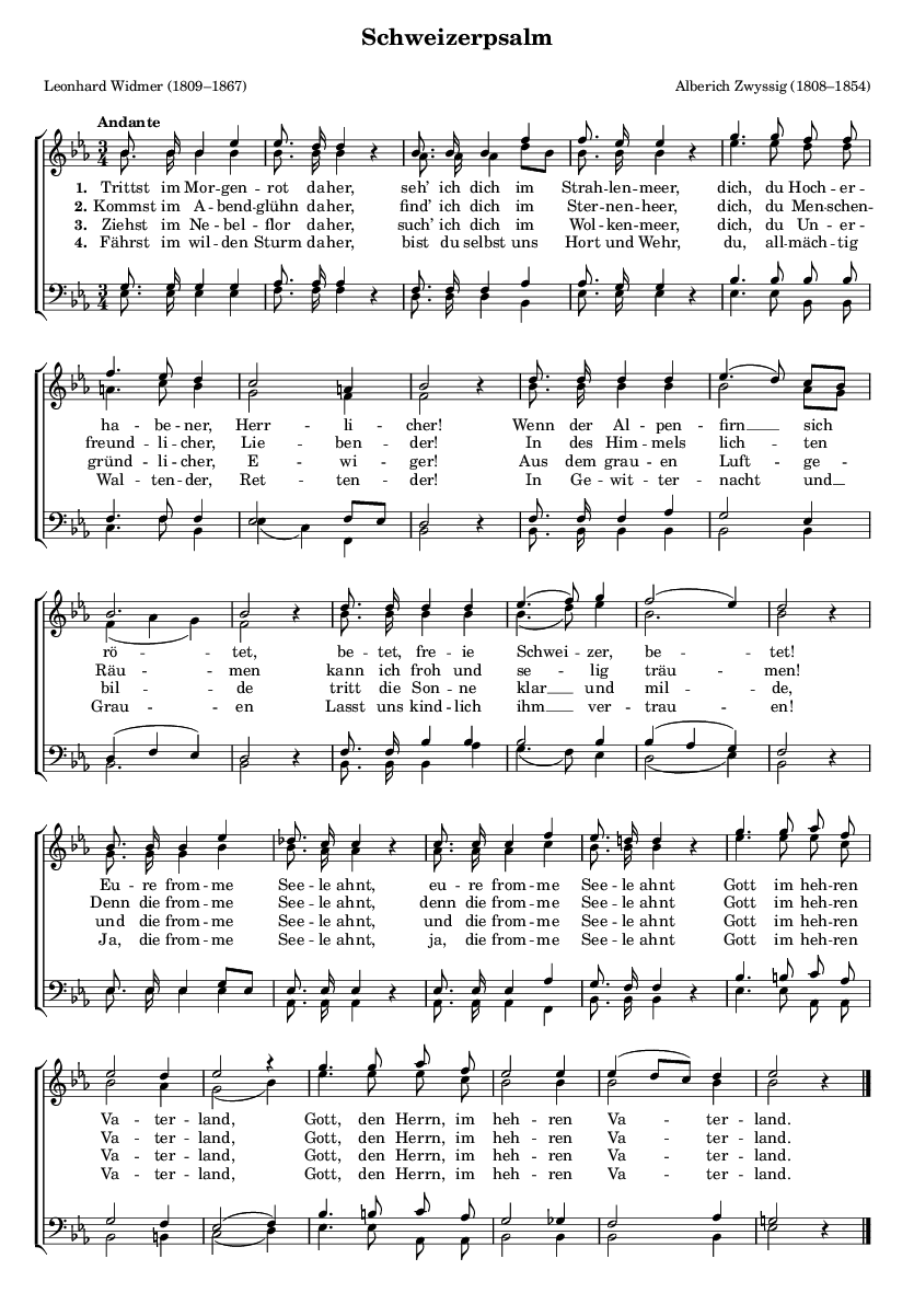 The Swiss national anthem, with the German lyrics.